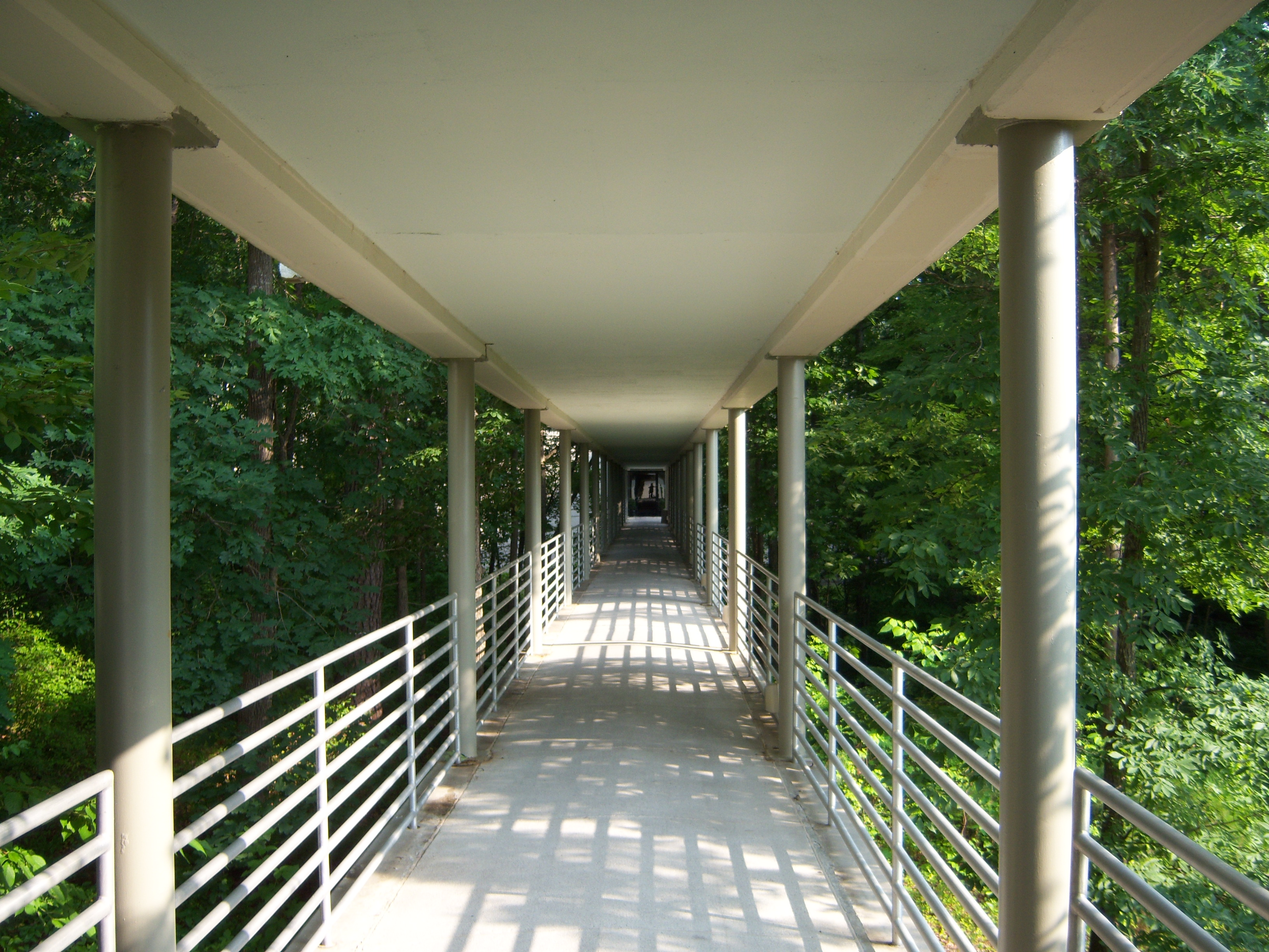 Fuqua School of Business - Bridge to R. David Thomas Center